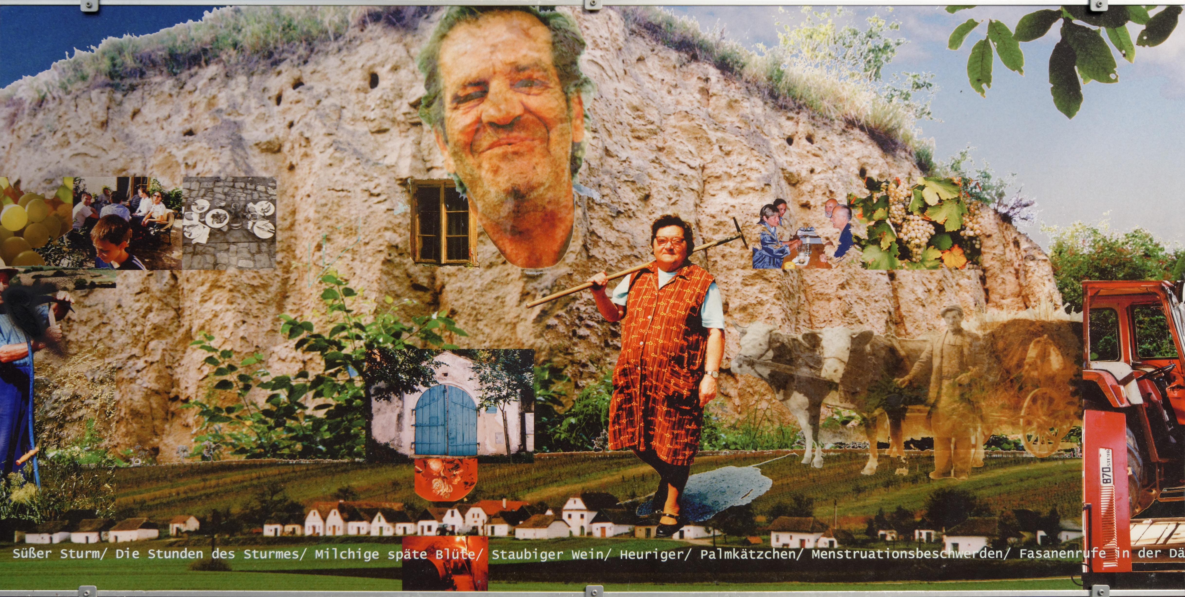 Wine-county-frieze - Board 3 - from Heinz Cibulka near Mistelbach , Lower Austria, Austria